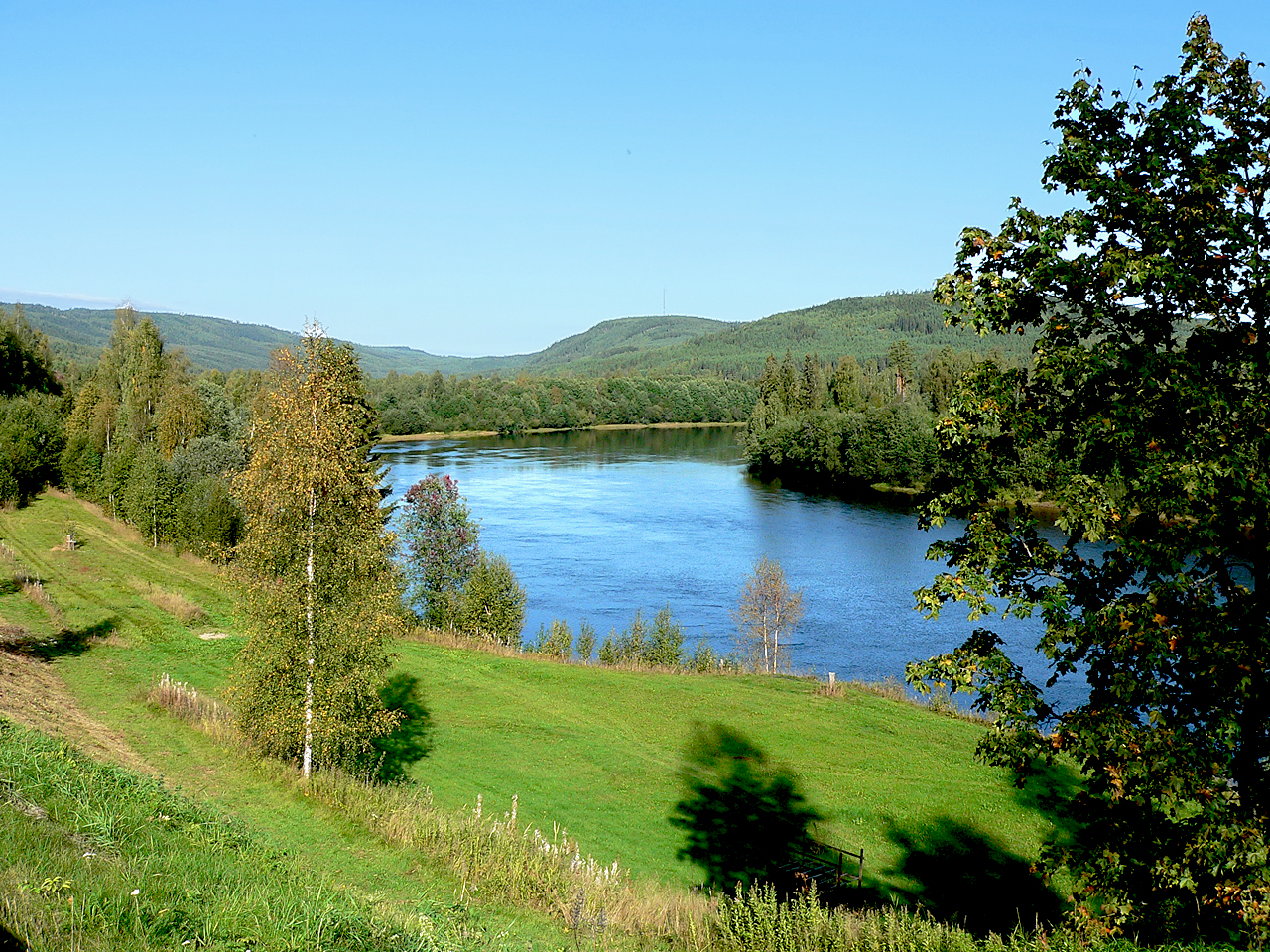 View over the swedish river Klarälven in the landscape of Värmland in the west part of Sweden in autumn